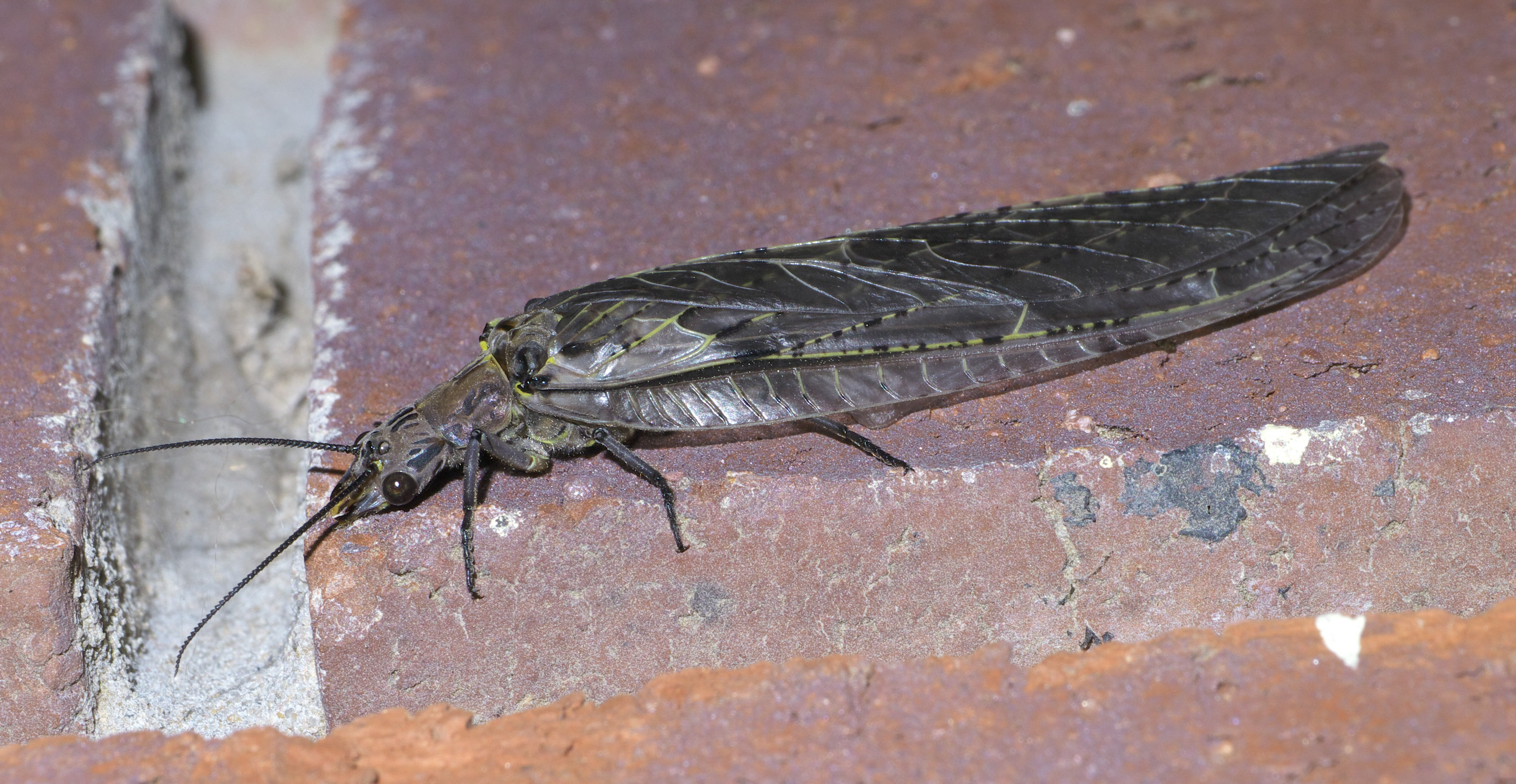 Chauliodes rastricornis, Spring Fishfly, ID Confidence: 95